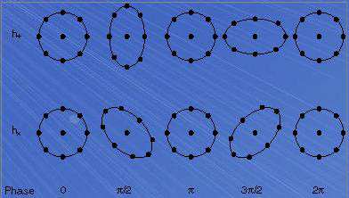 The effect of a polarized gravitational wave on a ring of particles. The wave compresses the ring in one direction while at the same time stretching it in the other.